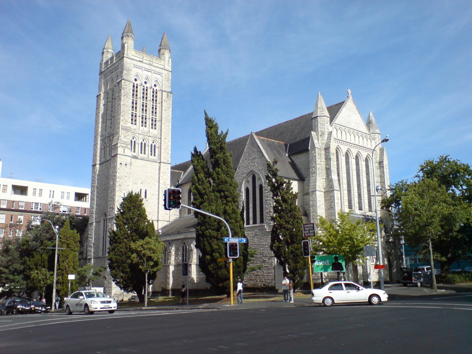 The St Matthew-in-the-City church in City, New Zealand, as seen from the north-west.